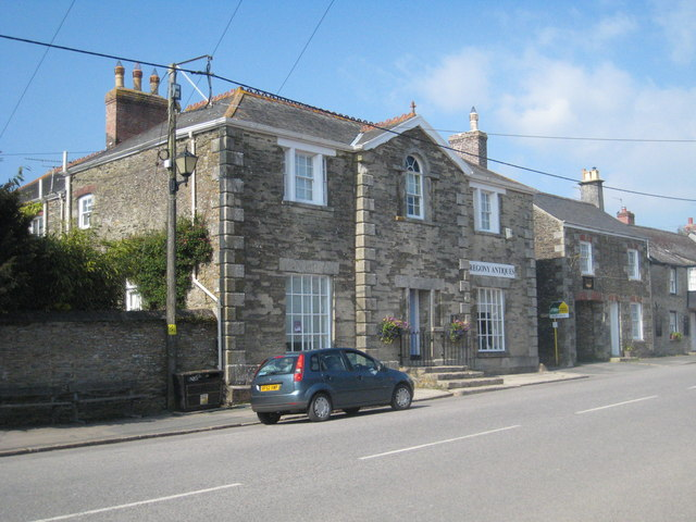 The Old Town Hall Tregony, near to Tregony, Cornwall, Great Britain. Now an antiques shop, this imposing building gives an indication of the town's former importance when it was a market town and a port on the River Fal. The Fal silted up long ago as a result of tin streaming works and with the loss of the port, the town declined in importance. More details of this Grade II listed building here: Link